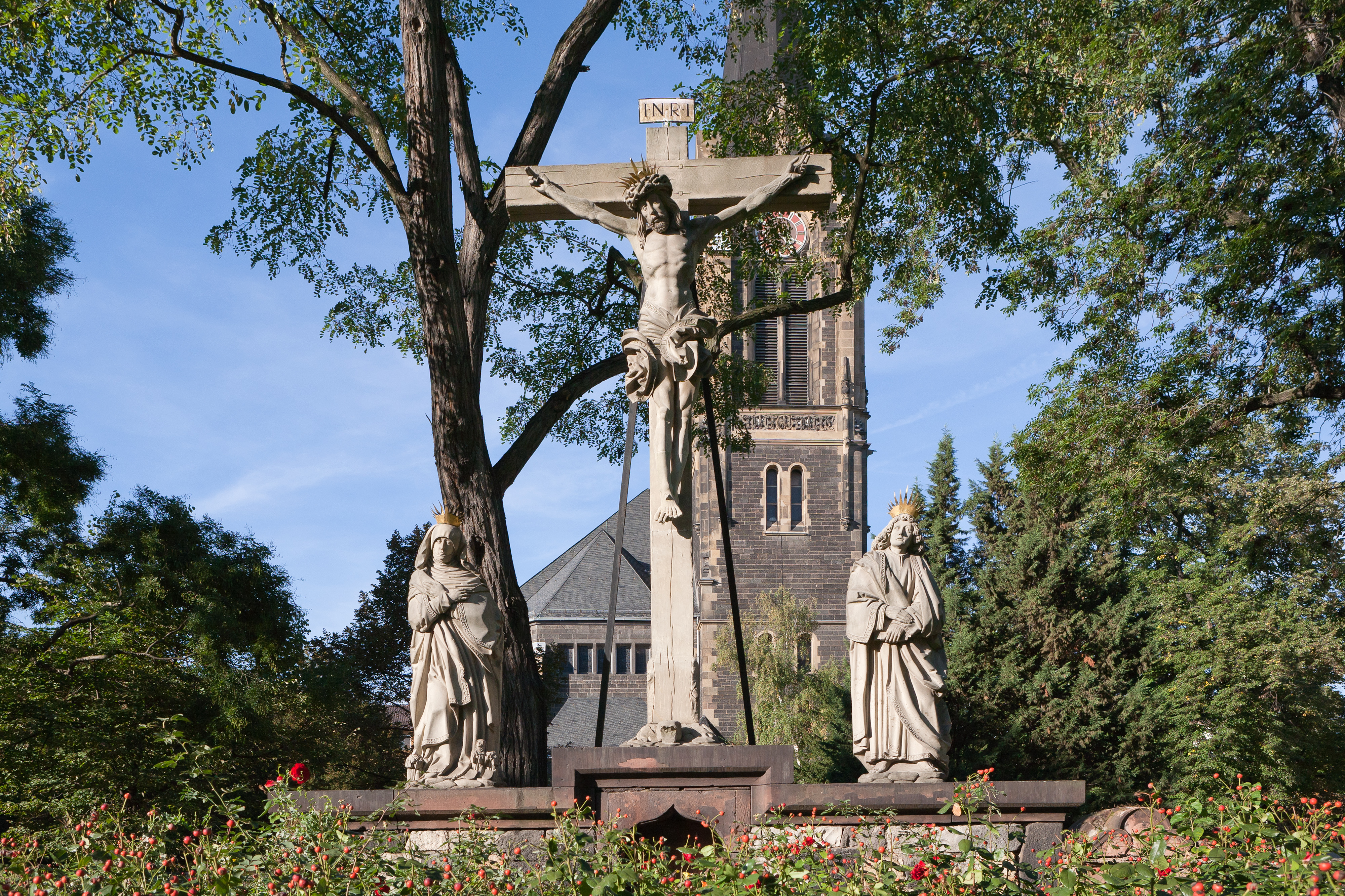 Frankfurt on the Main: Crucifixion group upon the Peterskirchhof (St. Peter's Churchyard) created in 1510/11 by Hans Backoffen as seen from the south